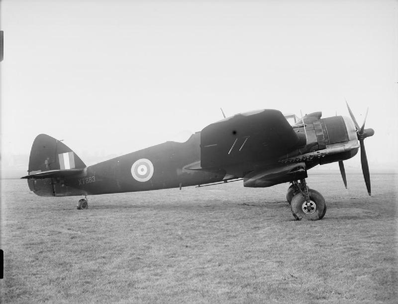 Aircraft of the Royal Air Force, 1939-1945- Bristol Type 156 Beaufighter. Beaufighter Mark VIF, X7883, on the ground at Filton, Bristol, following assembly at the Bristol Aeroplane Company's 'shadow' factory at Old Mixon aerodrome, near Weston-super-Mare, Somerset. X7883 has been painted in overall matt-black RDM2 night-fighter finish and is fitted with AI Mark IV aircraft interception radar. It was tested by the Aeroplane an Armament Experimental Establishment at Boscombe Down, Wiltshire, and then transferred to the USAAF in the Middle East.